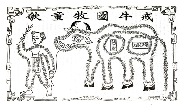 The cow's complaint and the herd boy's song. A ballad in Chinese in the shape of the speakers from The Chinese repository, vol. 9, 1840 [FCO Journals]